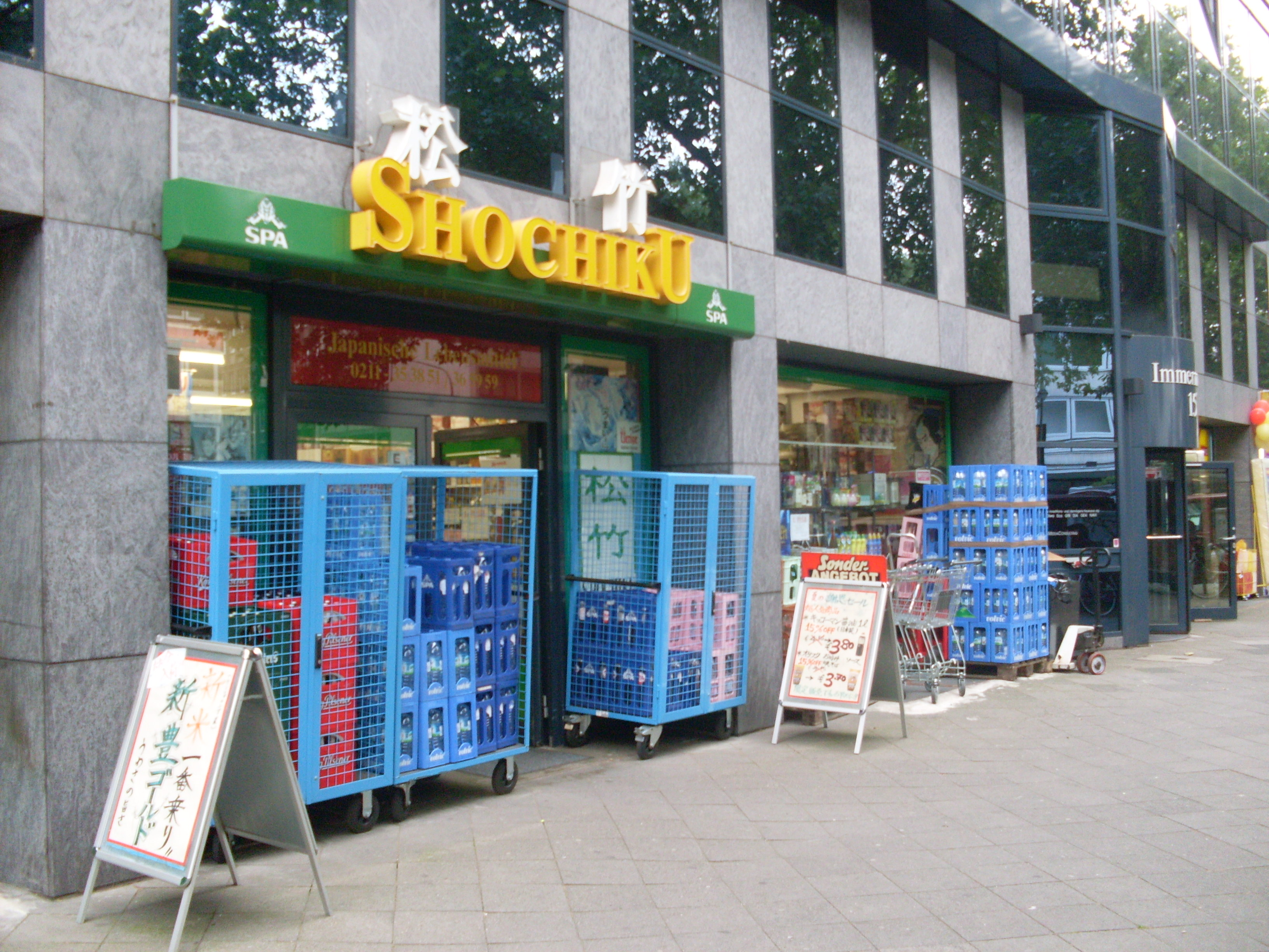 Duesseldorf: Shochiku (松竹) Supermarket in Japanese Business District, Düsseldorf